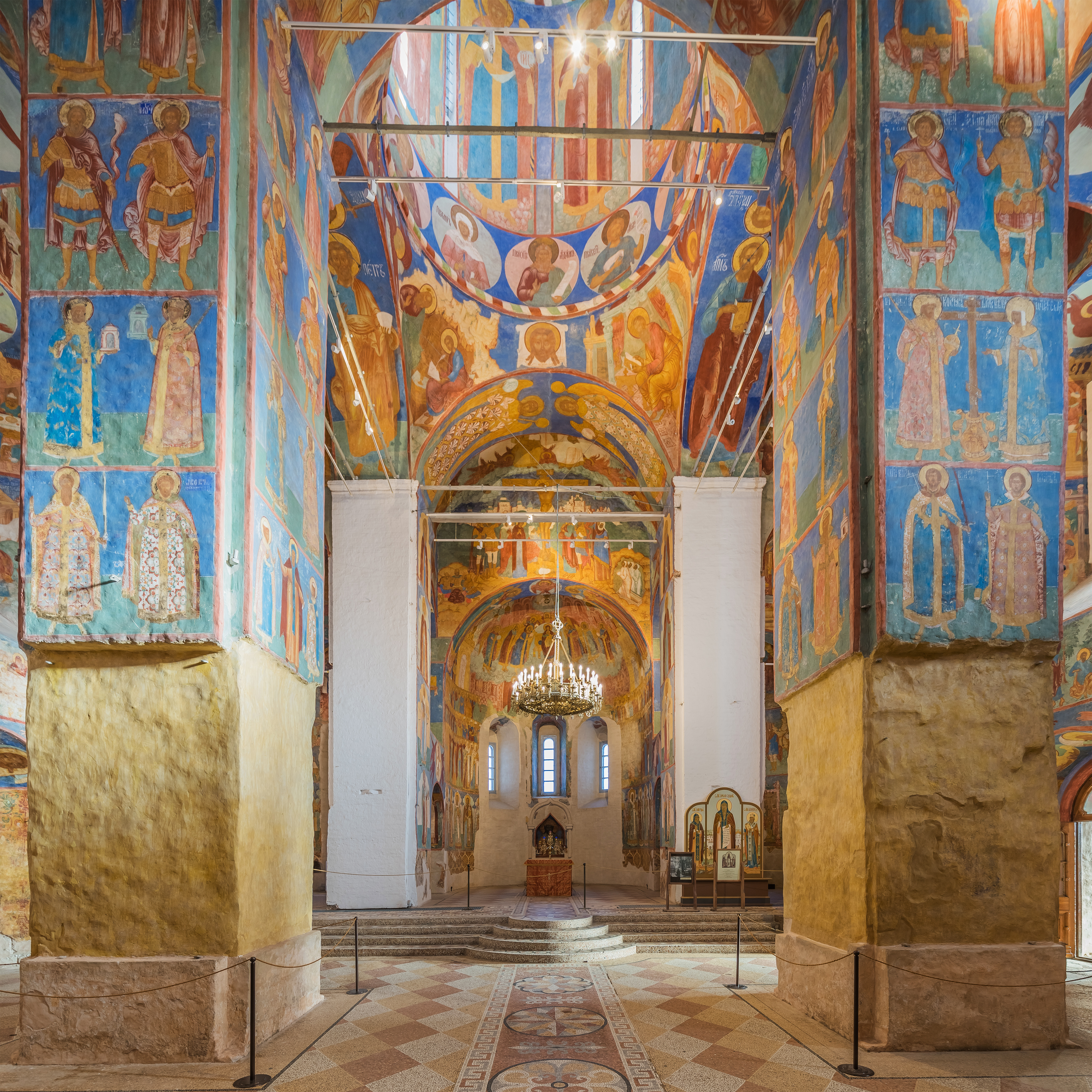 Transfiguration Cathedral in Spaso-Evfimiev Monastery in Suzdal, Russia